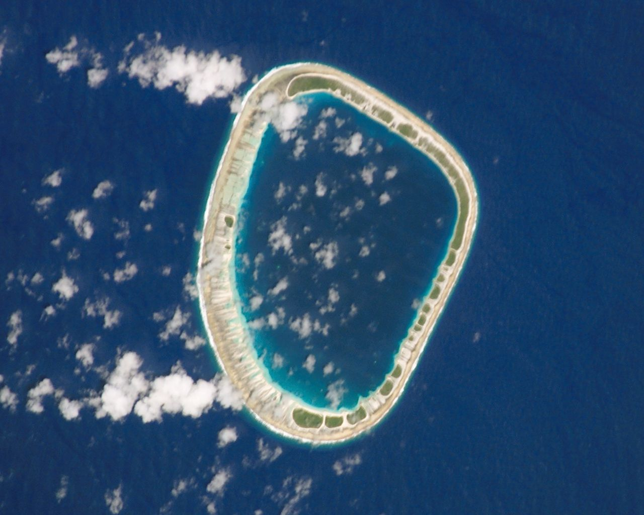 NASA astronaut image of Matureivavao Atoll (Tuamotu Archipelago, French Polynesia) in the Pacific Ocean